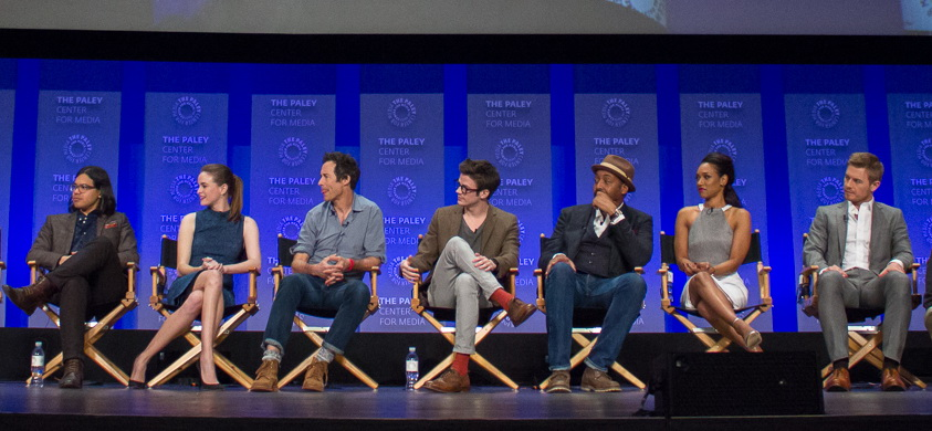 The cast "The Flash" at the PaleyFest 2015 presentation for the show. From left to right: Carlos Valdes, Danielle Panabaker, Tom Cavanagh, Grant Gustin, Jesse L. Martin, Candice Patton and Rick Cosnett.